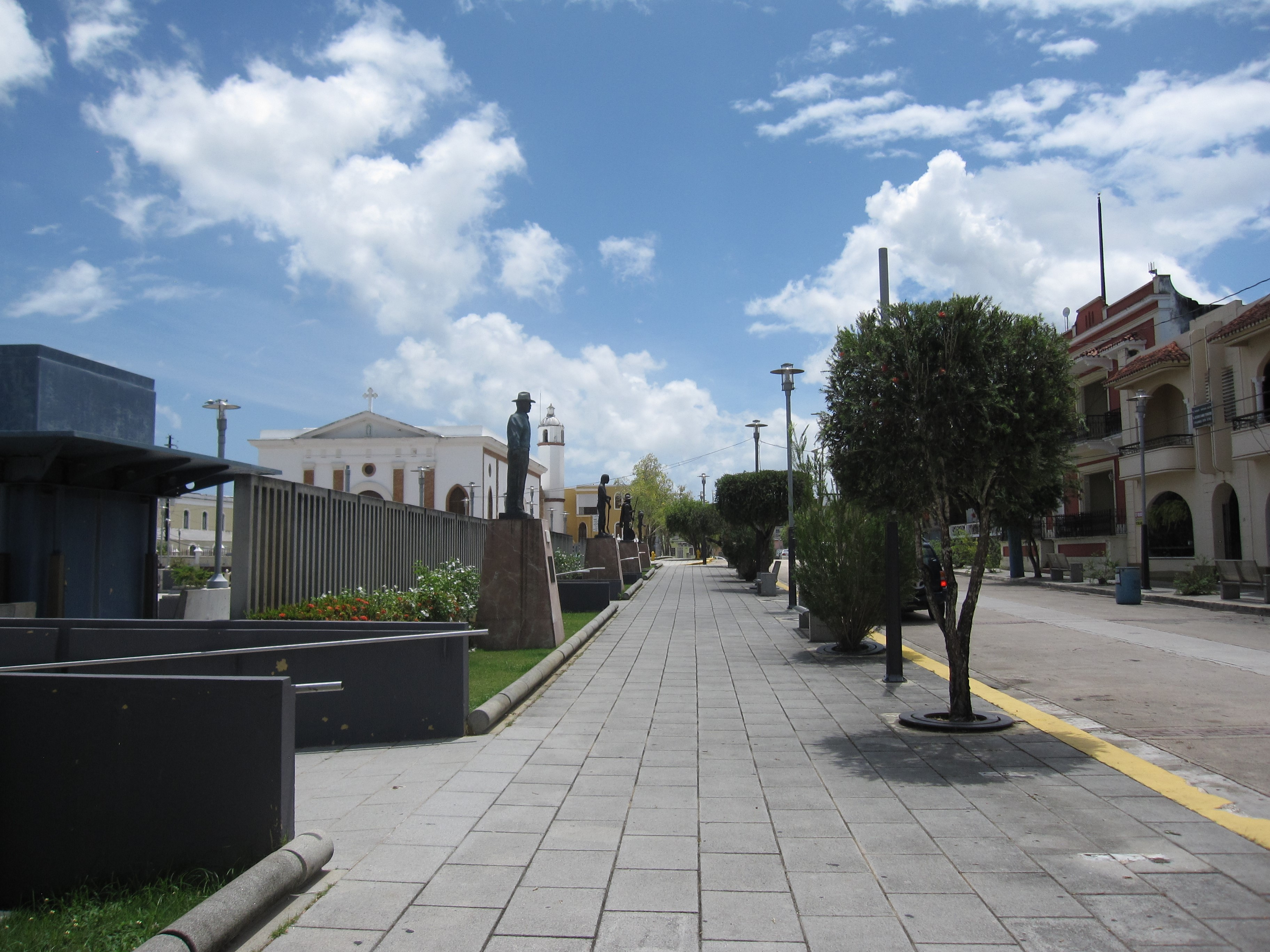 Central plaza in Manatí barrio-pueblo